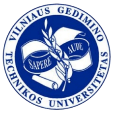 Symbol of Vilnius Gediminas Technical University